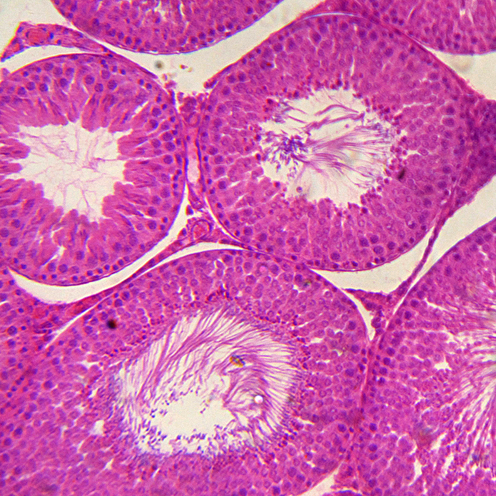 James Scott, personal photo, stained section photographed in bright field microscopy